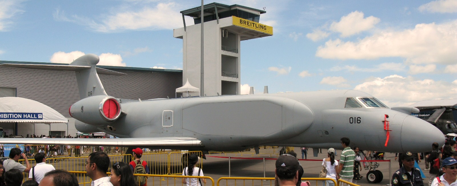 Singapore Air Show 2010: An operational G550 CAEW of 111 Squadron Republic of Singapore Air Force on display